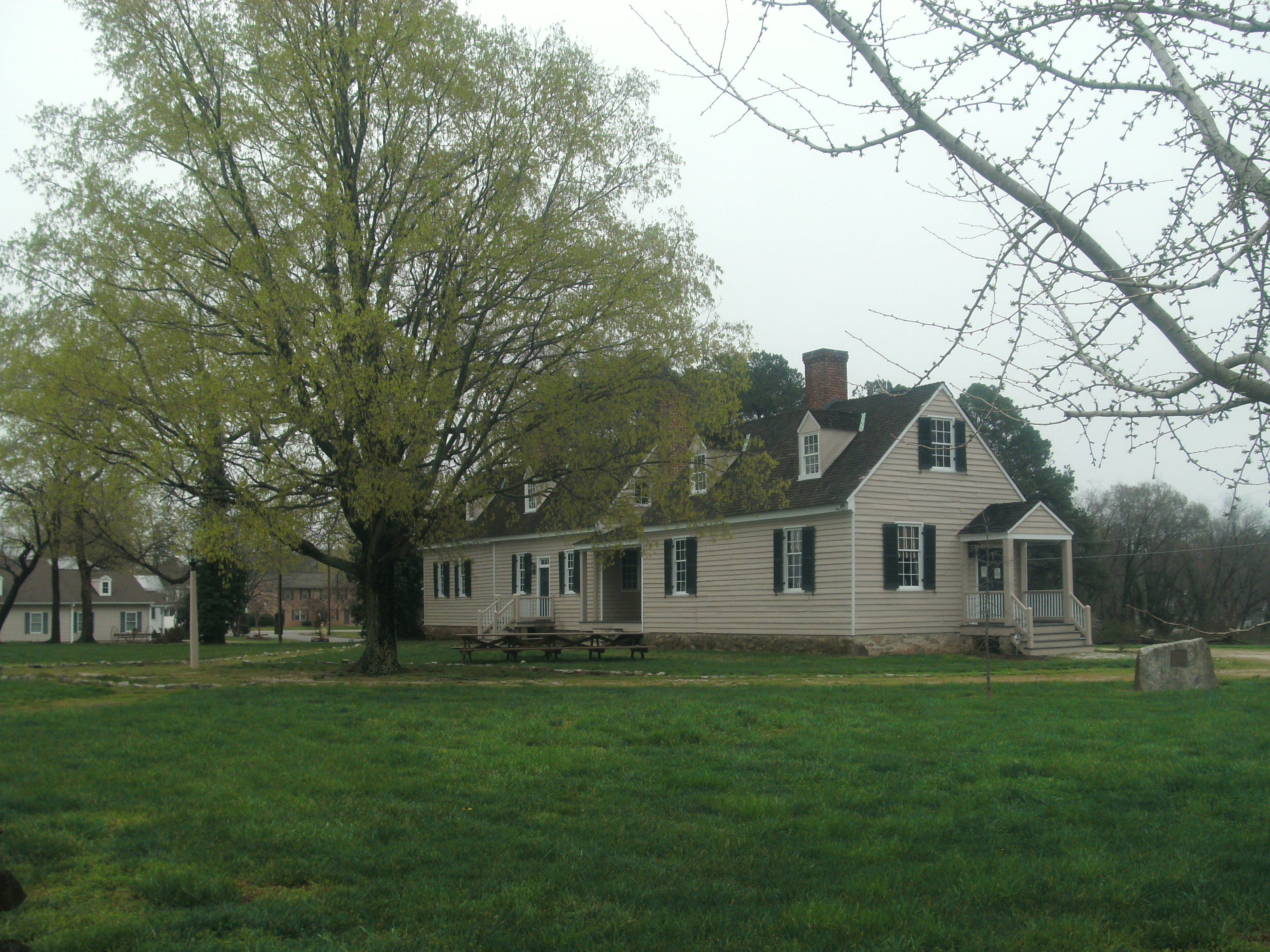 Nottoway County, Virginia, April, 2015 GEDSC DIGITAL CAMERA